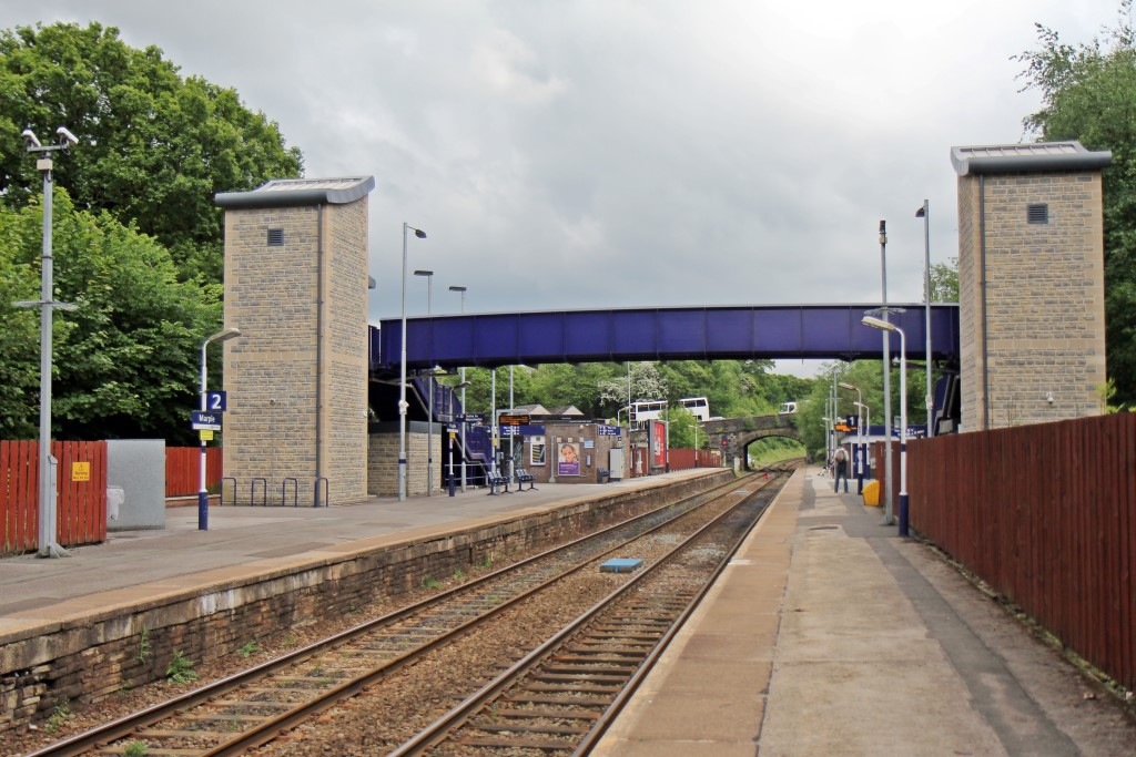 Footbridge, Marple railway station